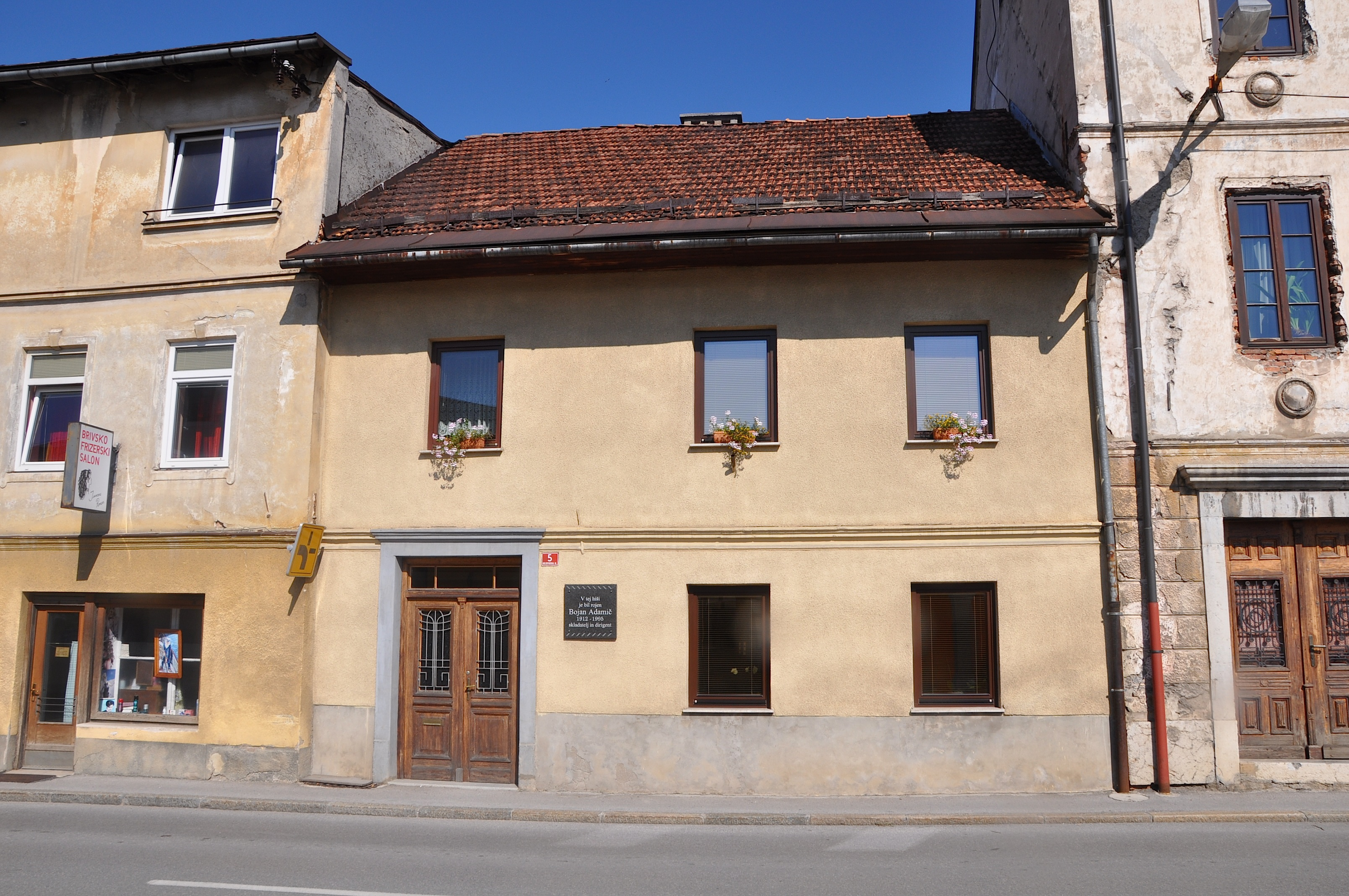 Birth house of Bojan Adamič, slovenian composer, Ribnica